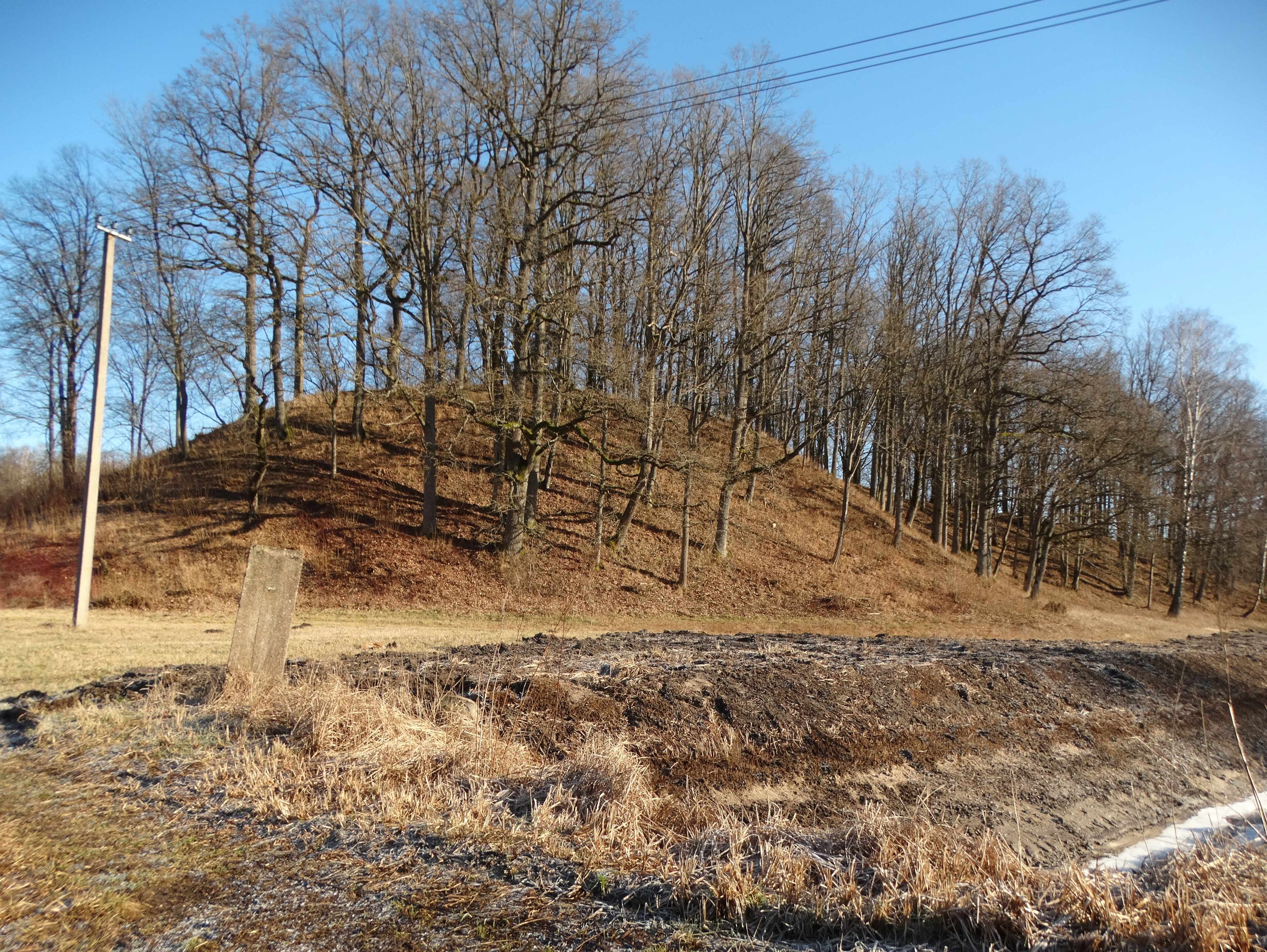 Nausodis II hillfort (Varkaliai hillforts), Plungė district, Lithuania